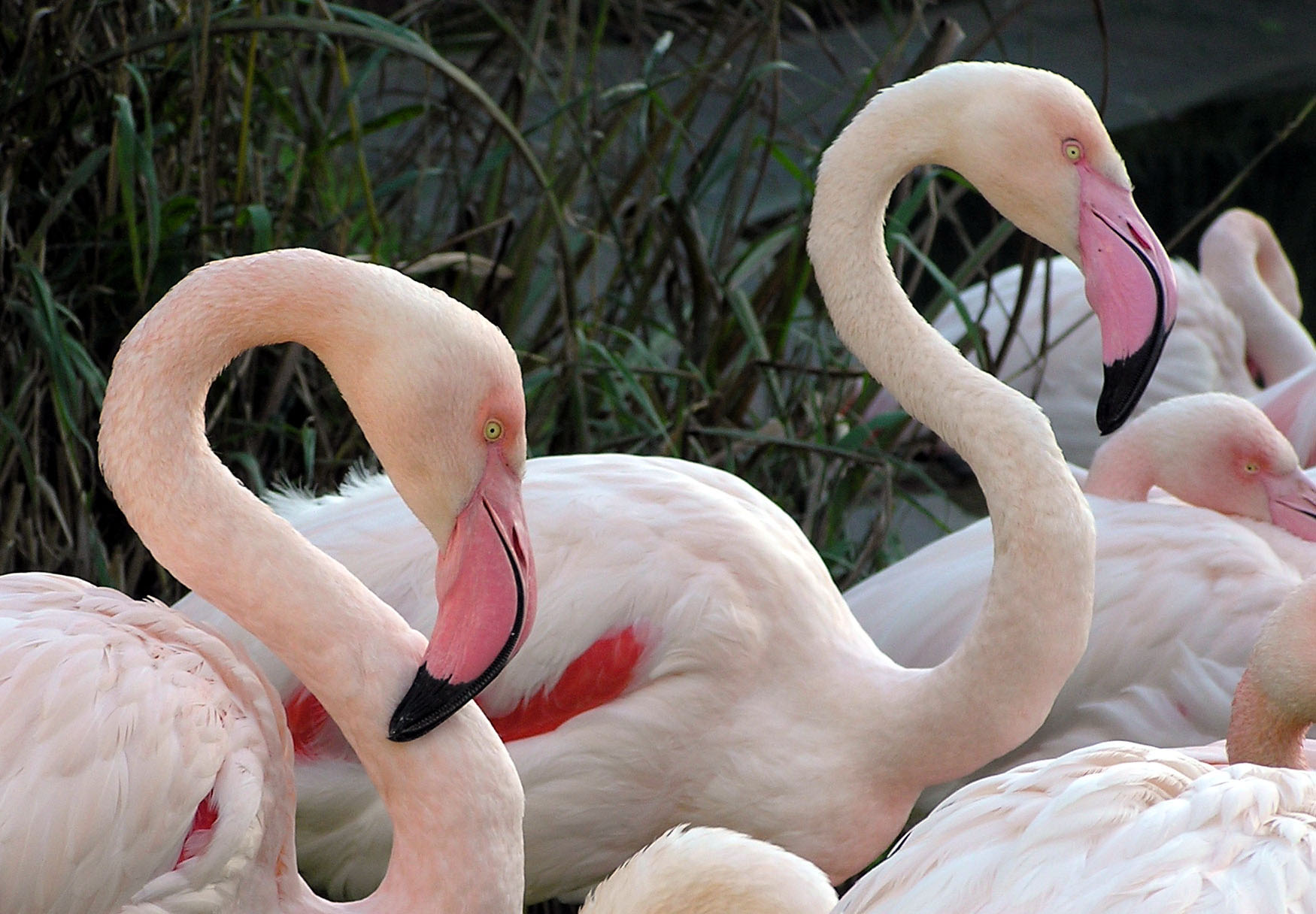 Greater Flamingo at Bristol Zoo, Bristol, England. Photographed by Adrian Pingstone in December 2005 and released to the public domain.